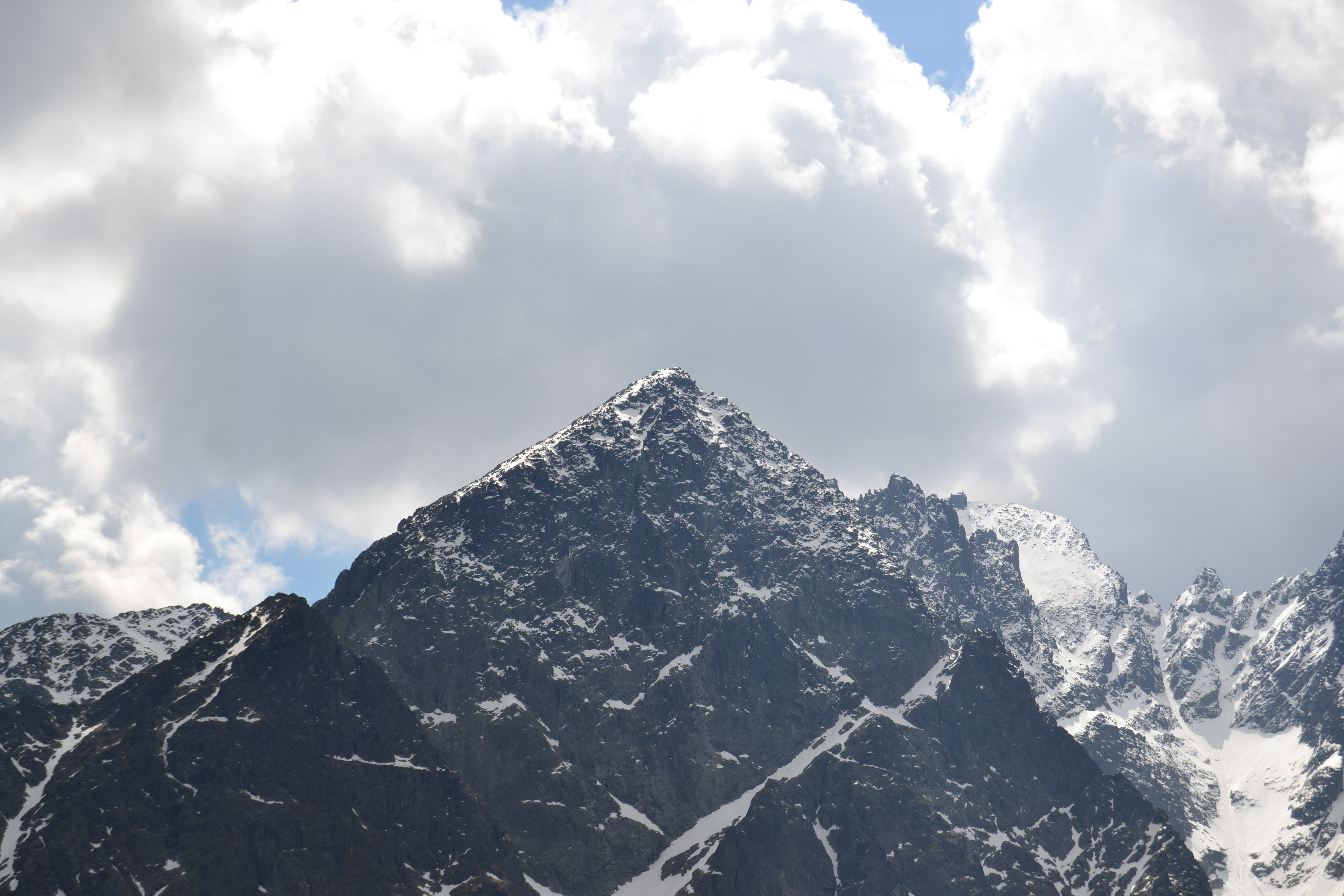 Fotografia dau Grand Pic de Mengusovce.